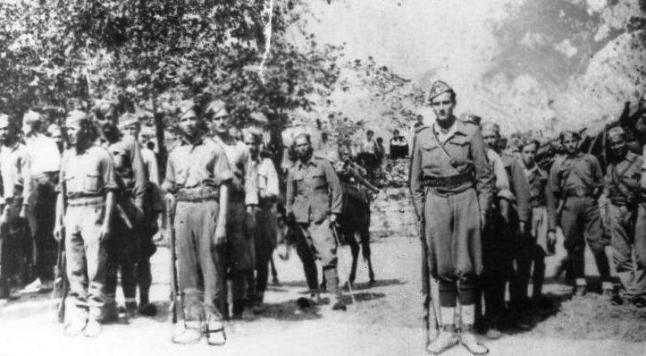 Fighters of ELAS This media file is produced by Wikipedian in Residence in Category:Wikipedian in Residence at DARM in 2016.